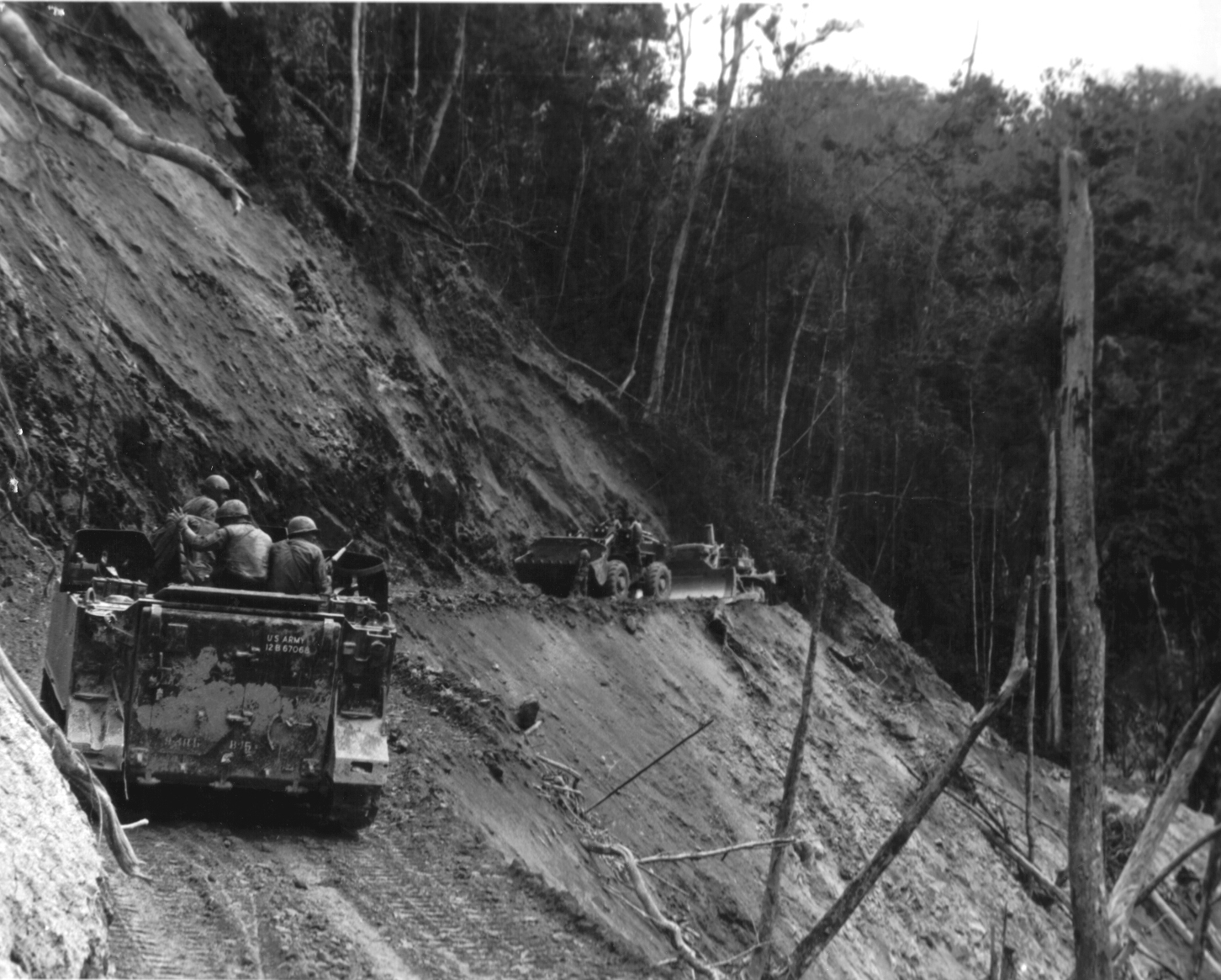 RED DEVIL ROAD, an engineering feat that opened enemy areas never before penetrated.